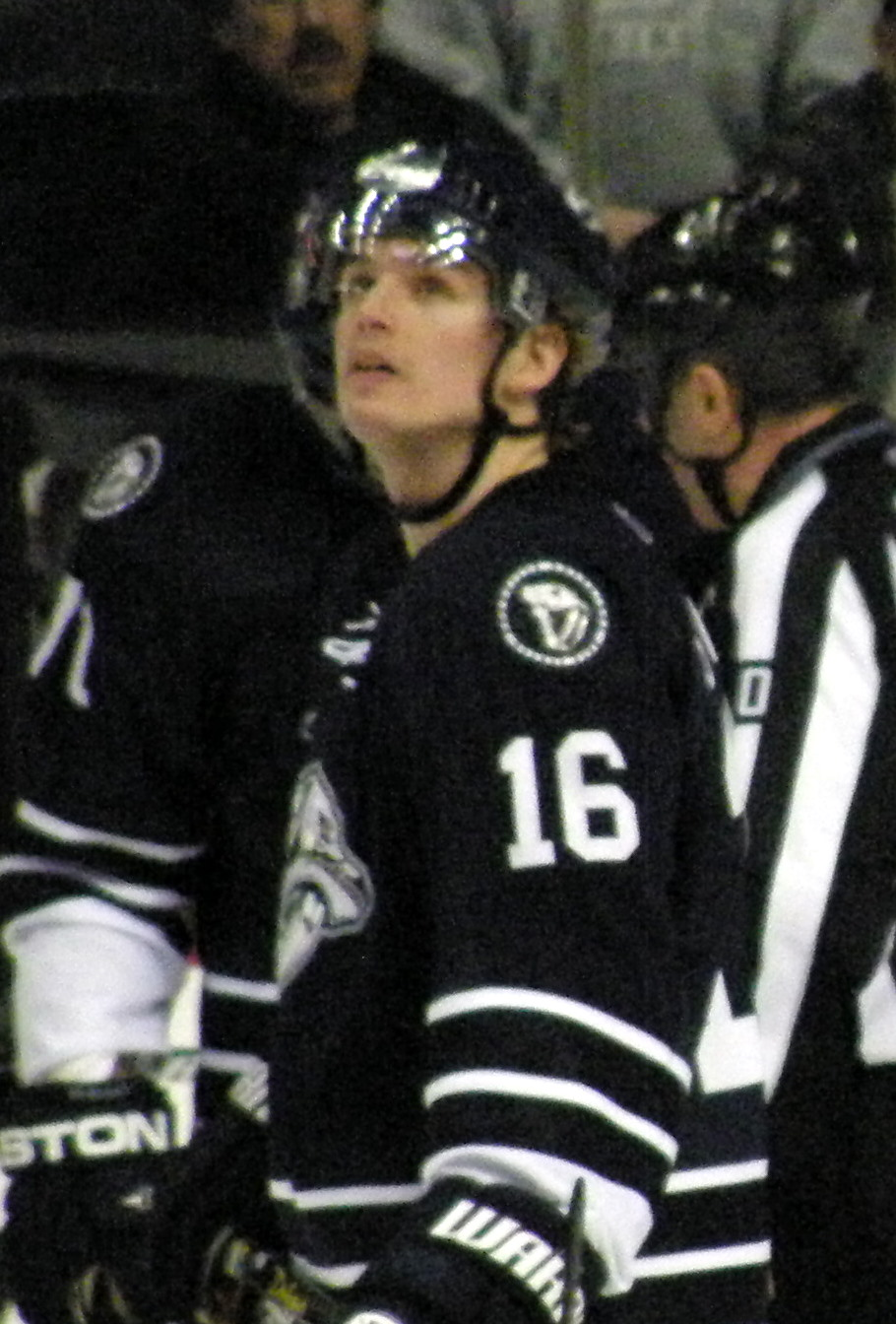 16, Cal O'Reilly, C, NSH San Jose Sharks at Nashville Predators, February 6, 2010